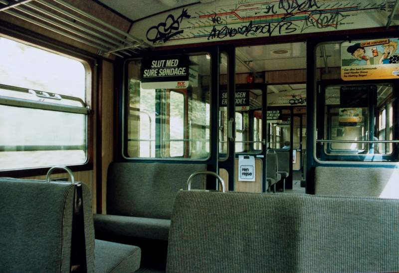 Interior view, S-tog, 1987 (back when you could still pull the windows fully down).